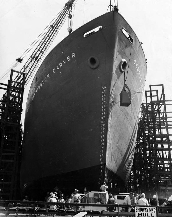 Launching the liberty ship SS George Washington Carver. Original Caption: The SS George Washington Carver, second liberty ship to be named for an outstanding Negro American, was launched at the Richmond (Cal.) Shipyard No. 1 of the Kaiser Company on May 7, 1943; The 10,500-ton vessel is shown sliding down the way.